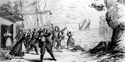 First performance of "Der fliegende Holländer" in Dresden 1843 (Source: Leipziger Illustrierte Zeitung, 3 January 1843)